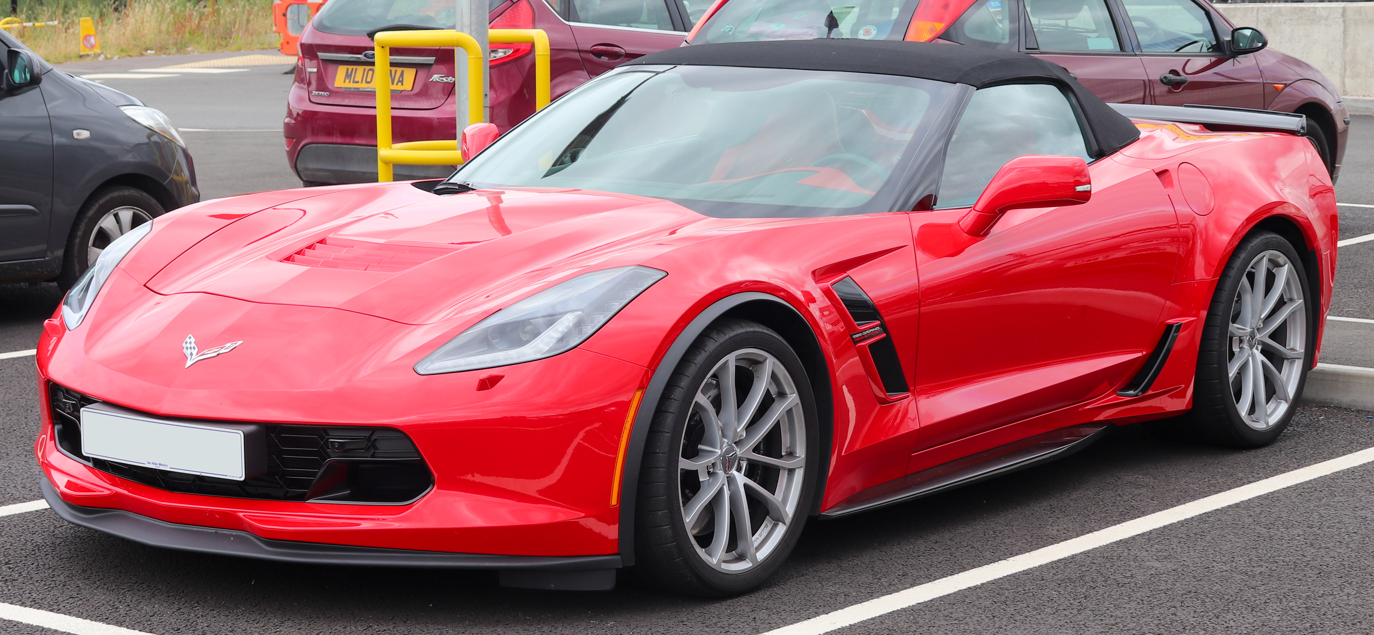 2018 Chevrolet Corvette V8 Stingray 6.2 Taken at the British Motor Museum, Gaydon